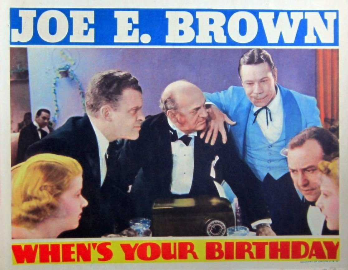 Lobby card from the American film When's Your Birthday? (1937) with Joe E. Brown.